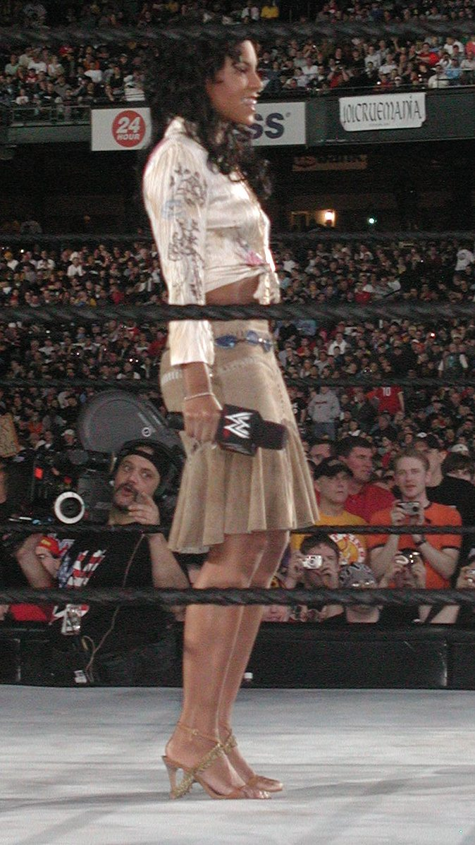 Ashanti at WrestleMania XIX. Safeco Field, Seattle, WA, on March 30, 2003.